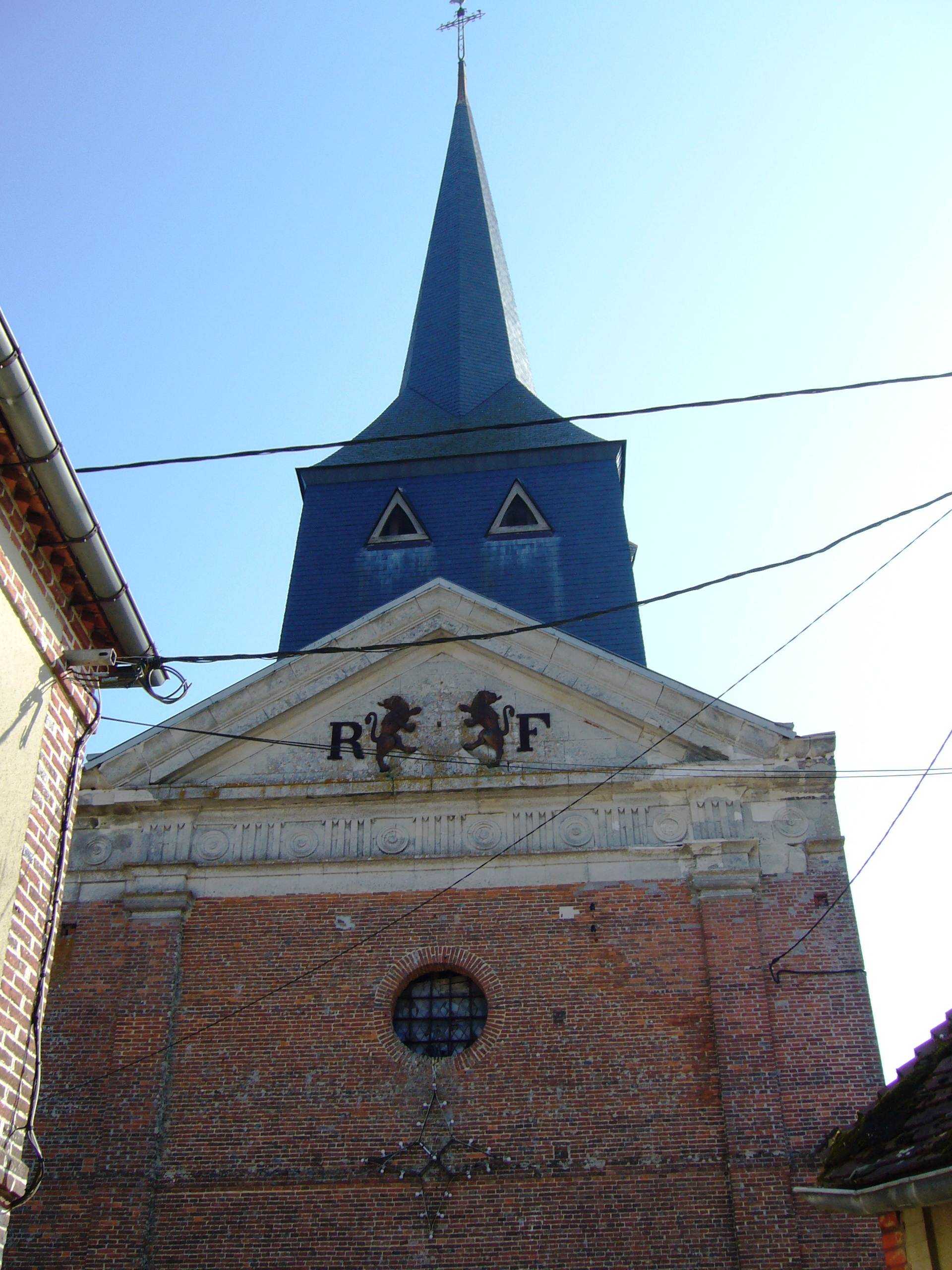 Front of saint-Agnan Parish Church of Glos-la-Ferrière, Normandy